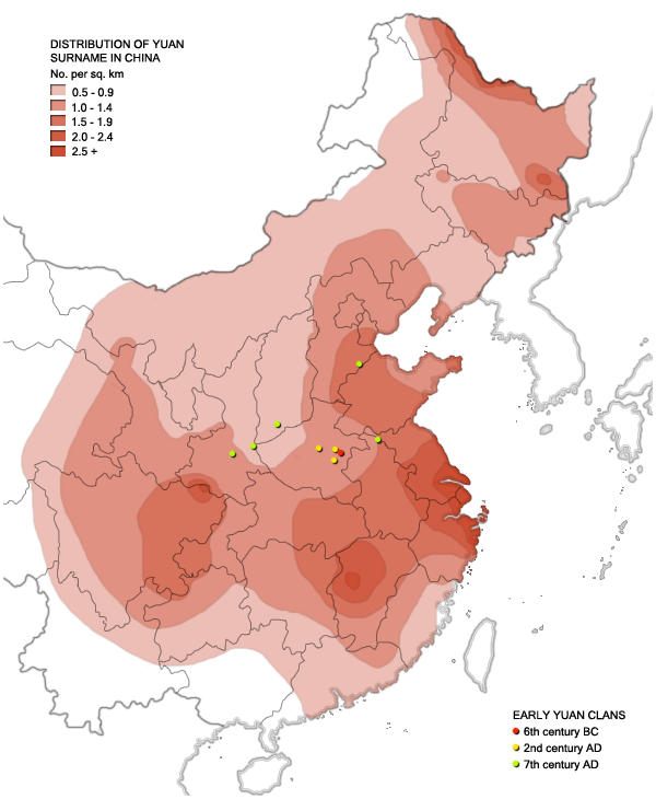 Distribution of Yuan surname based on Figure 5.4.7A, Yuan Yida and Zhang Cheng, Zhongguo xingshi (Shanghai: Huadong Shifan Daxue, 2001). Location of early Yuan clans based on Ouyang Xiu, Ch. 74, Xin Tang shu (Beijing: Zhonghua Shuju, 1975), pp. 3164-3169. 6th century BC: Yangxia (陽夏), Chen (陳). 2nd century: Fuyue (扶樂); Ruyang (汝陽); Yingchuan. 7th century: Pengcheng (彭城); Hedong (河東); Dongguang (東光); Huayin (华阴); Jingzhao (京兆).